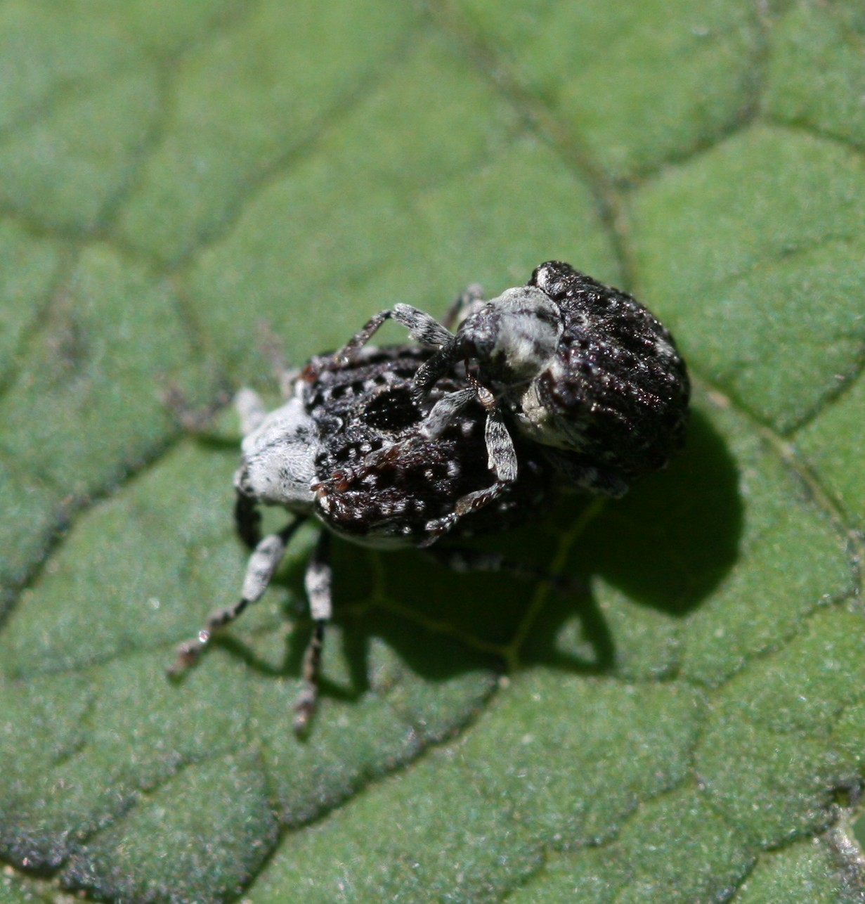 A pair of mating Figwort Weevils (Cionus scrophulariae)